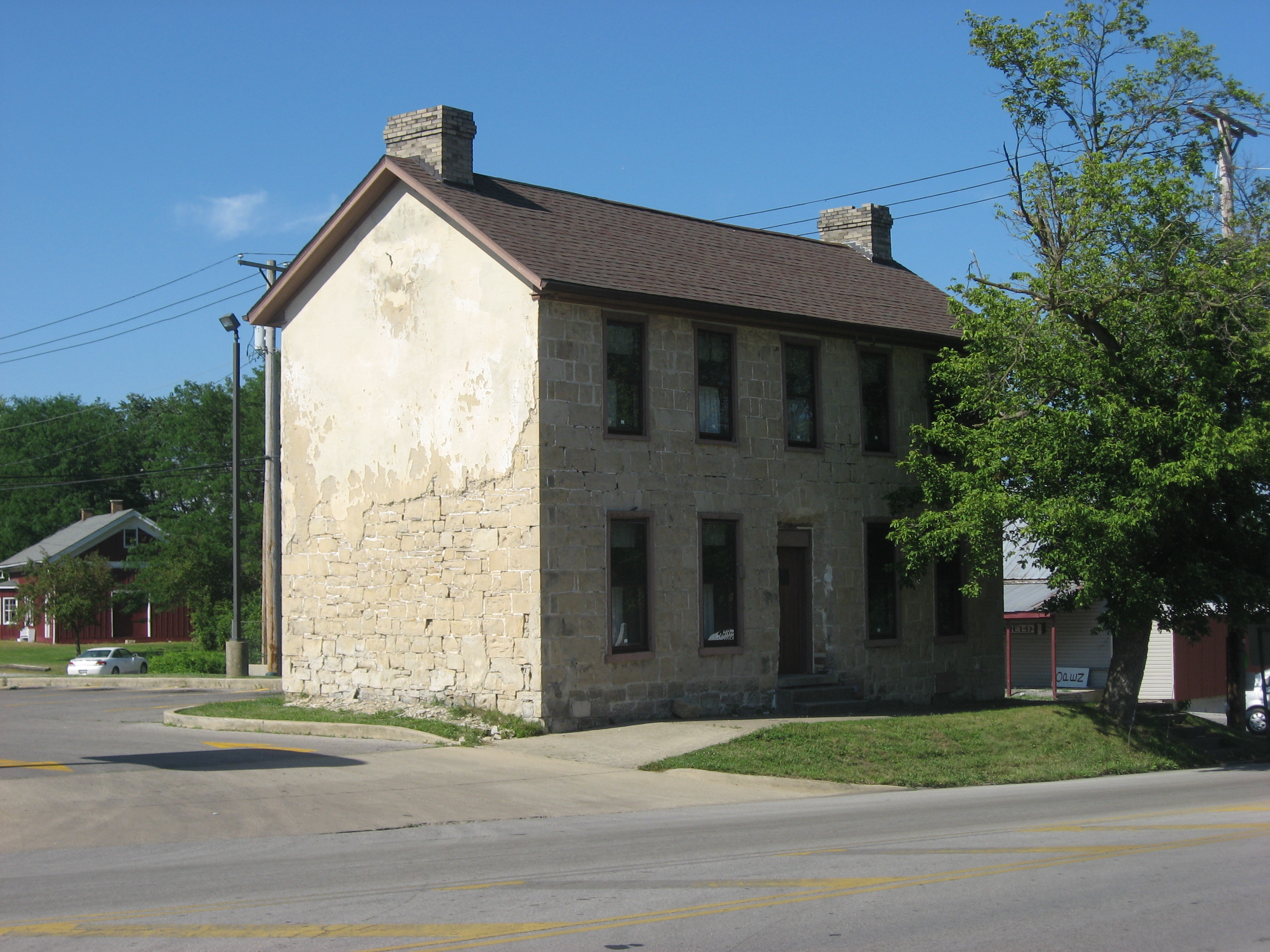 Front and western side of the Samuel Smith House and Tannery, located at 103 Jefferson Street (State Routes 28/41/138) on the eastern side of downtown Greenfield, Ohio, United States. Built in 1821, it is listed on the National Register of Historic Places.